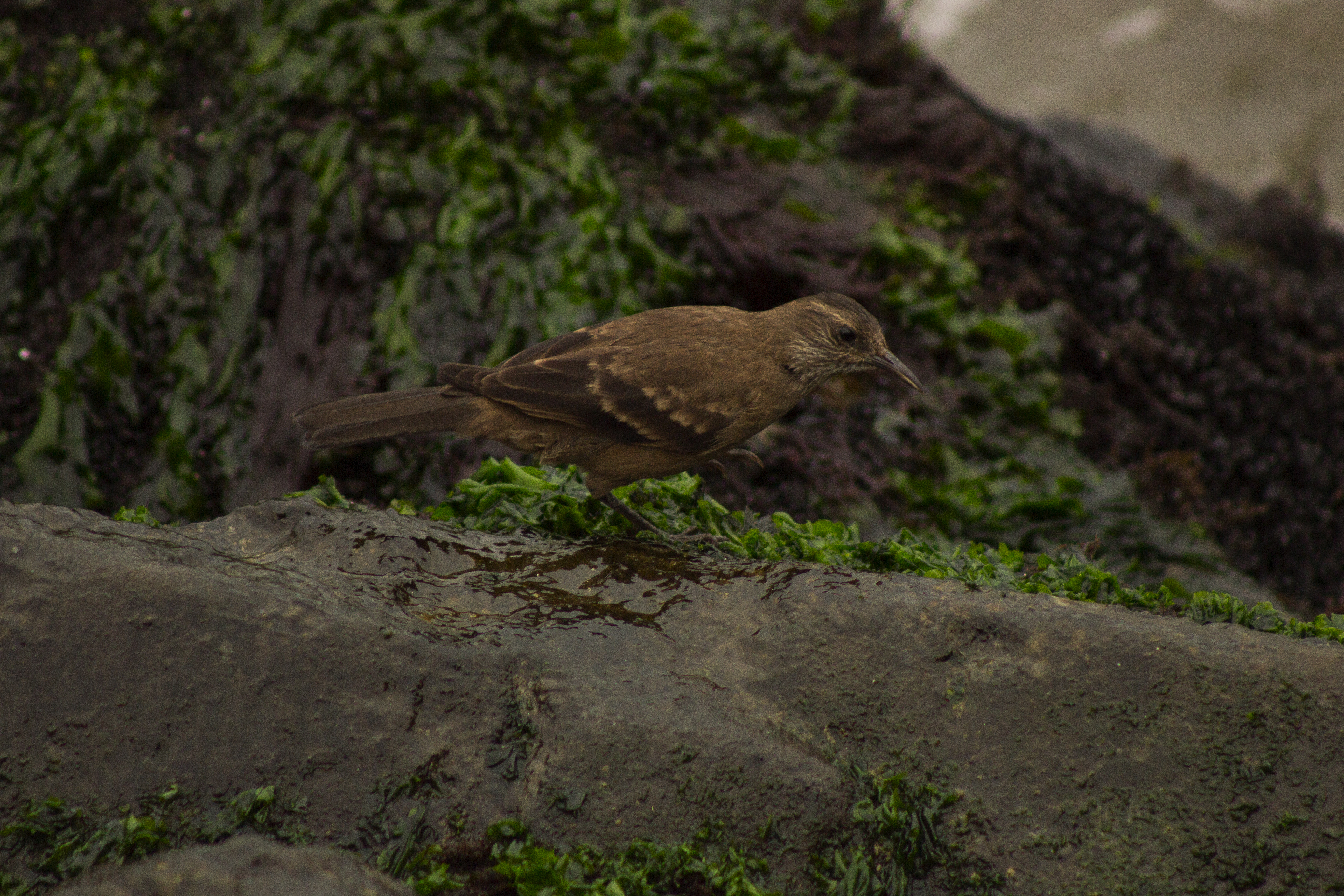 Chorrillos, fishing port, Lima, Peru